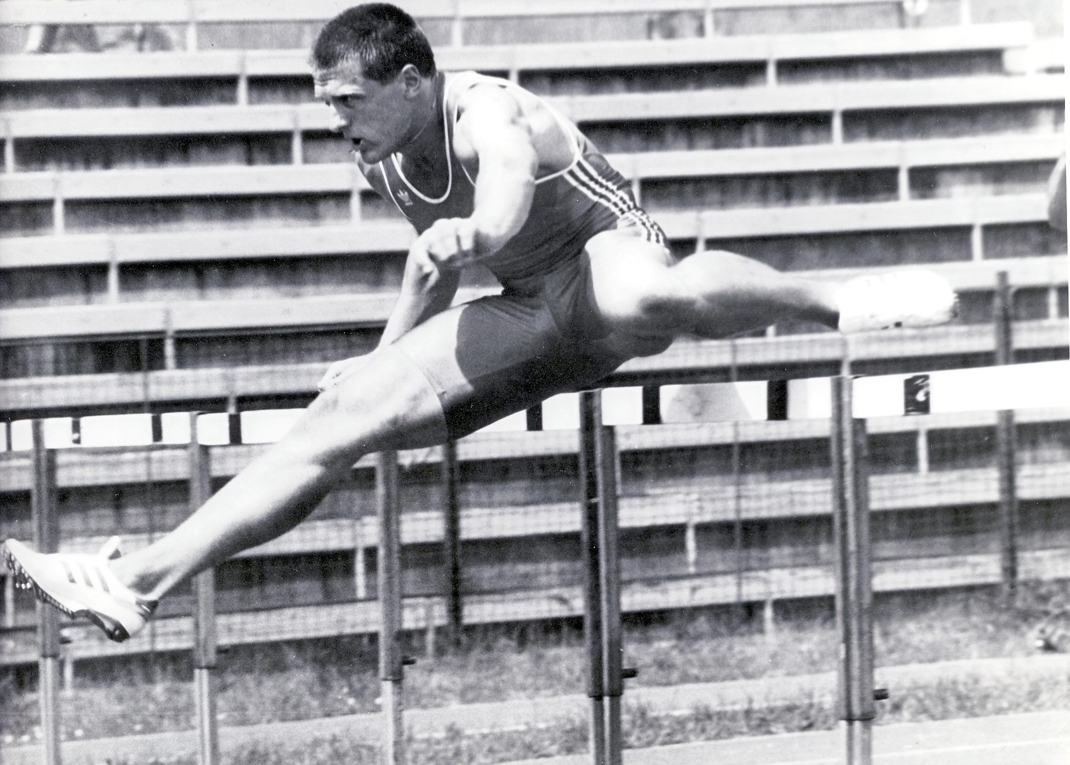 training at Strahov